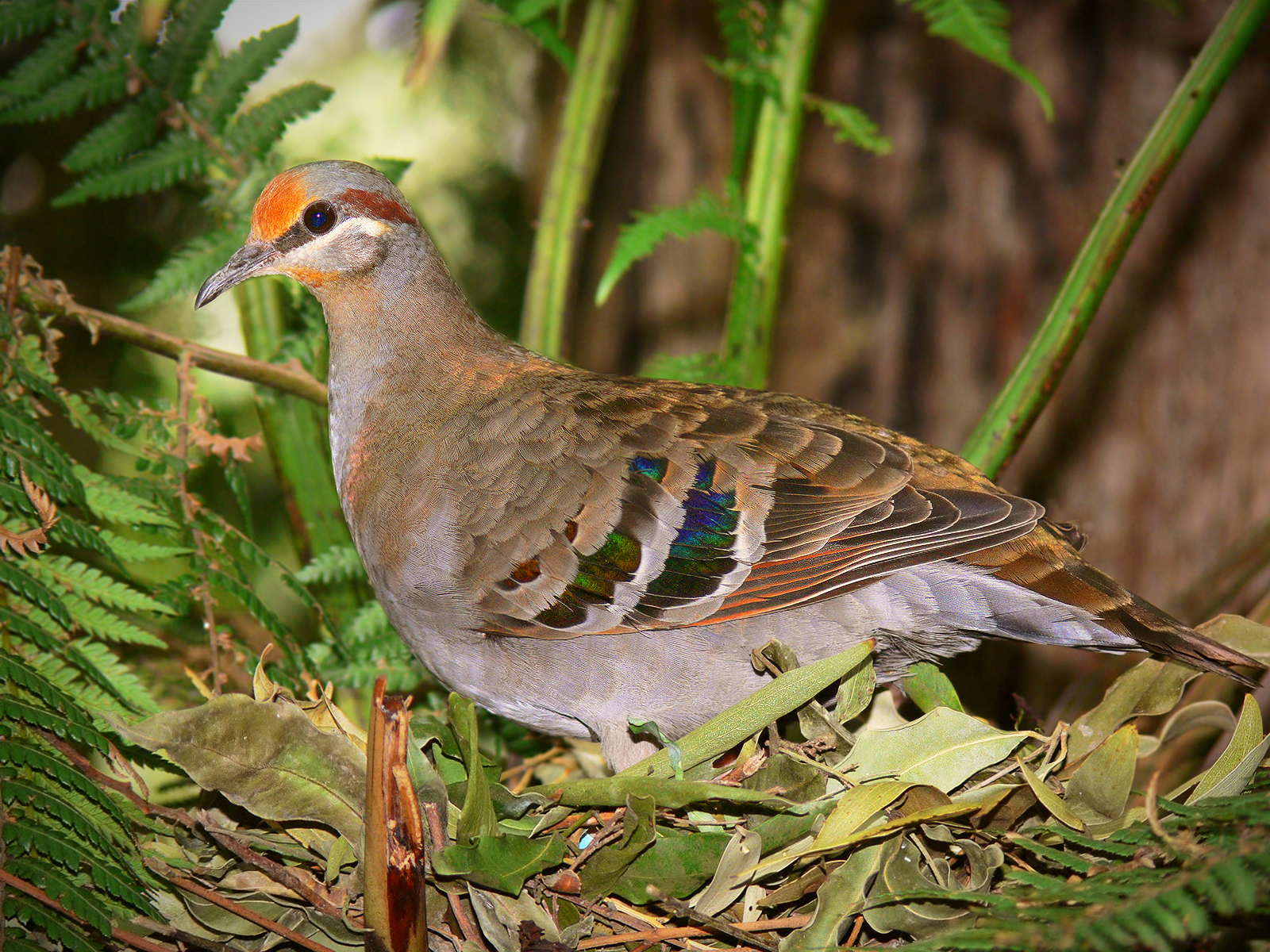 A Common Bronzewing Pigeon, Phaps chalcoptera, standing upon it's semi-completed nest which was just a few feet above the ground in the crown of a treefern.